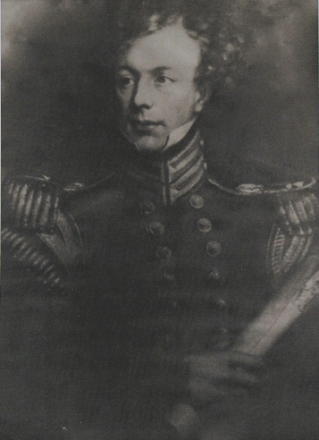 Governor of the goldcoast